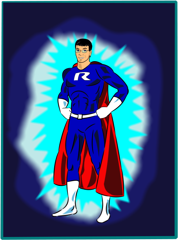 Therapeutic comics hero Retman